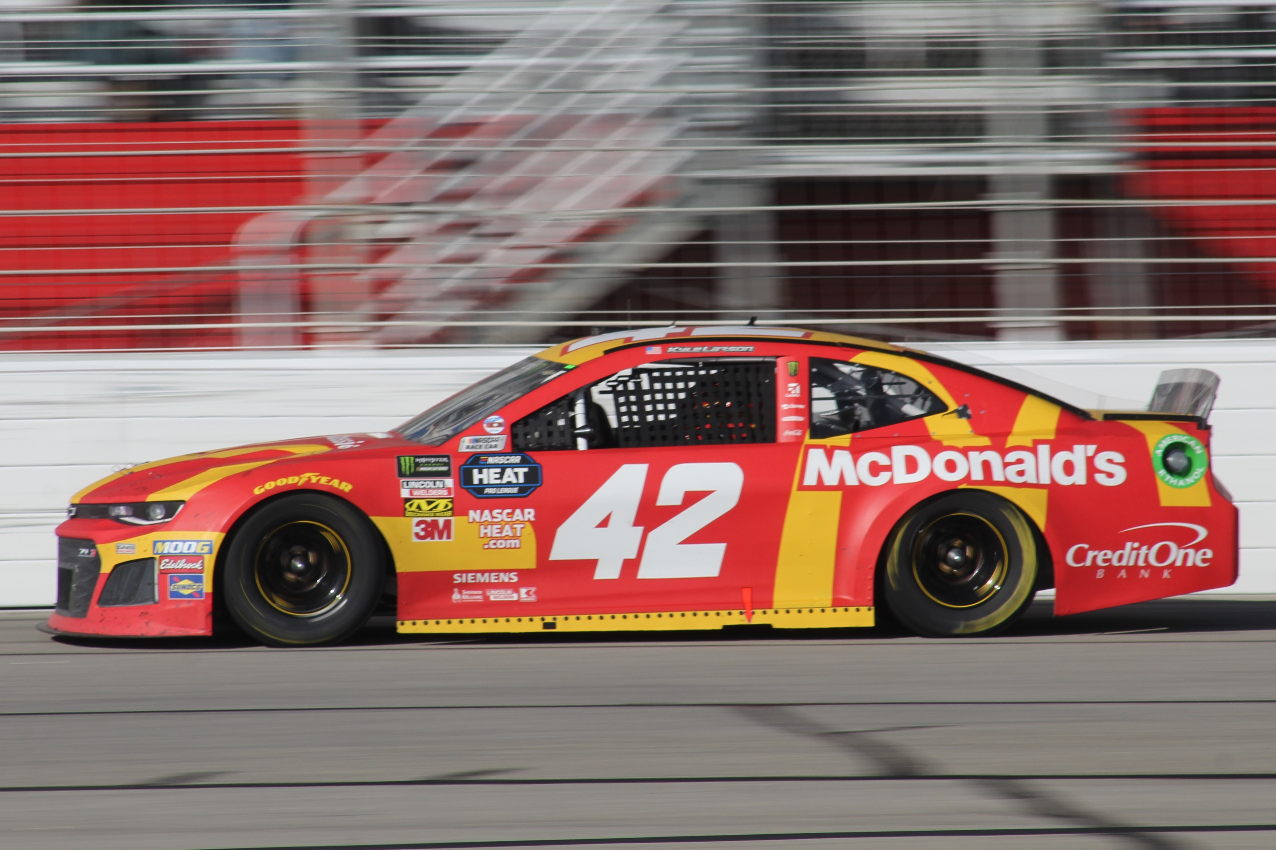 2019 Folds of Honor QuikTrip 500